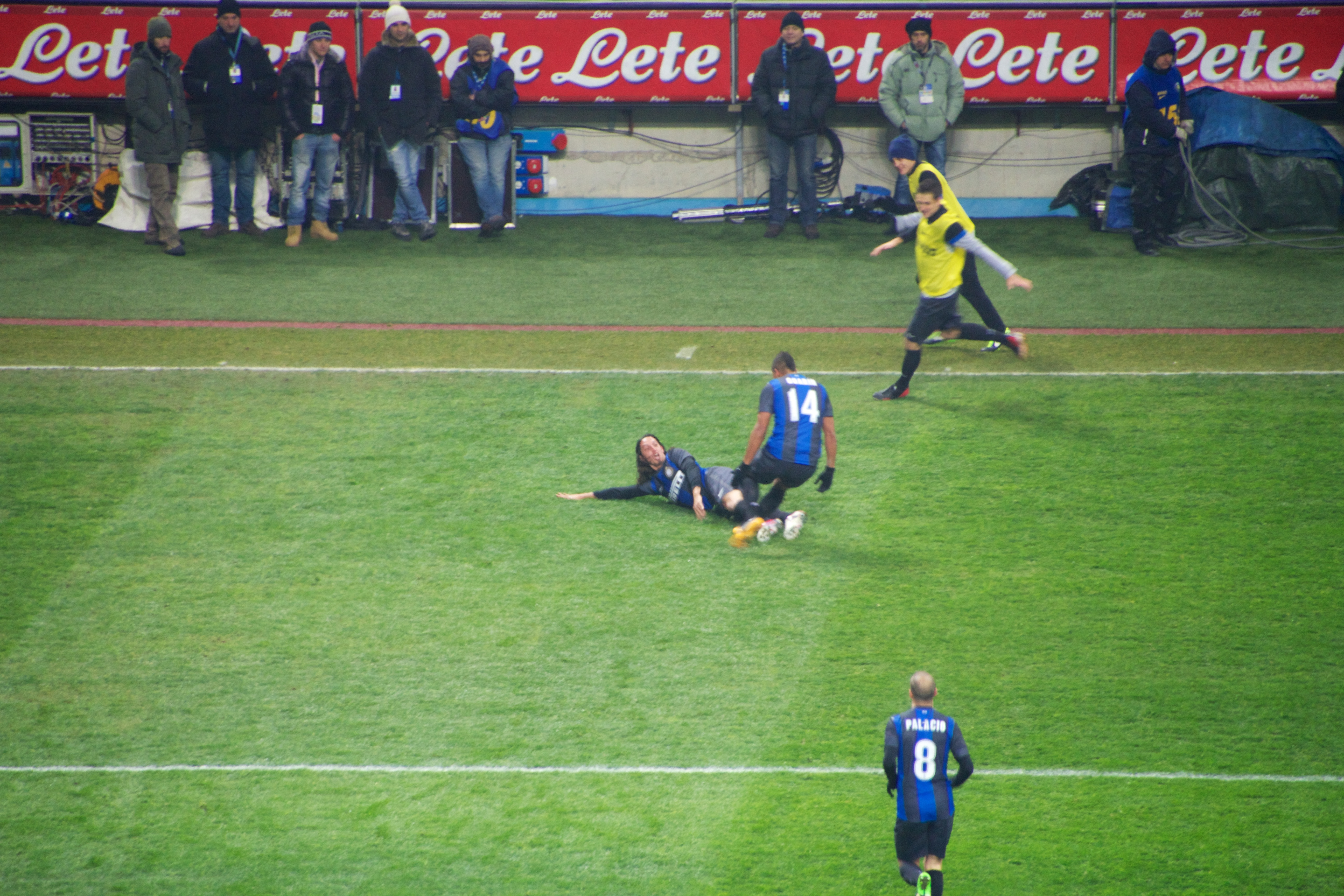 Ezequiel Schelotto goal celebration in FC Internazionale Milano-AC Milan, february 2013